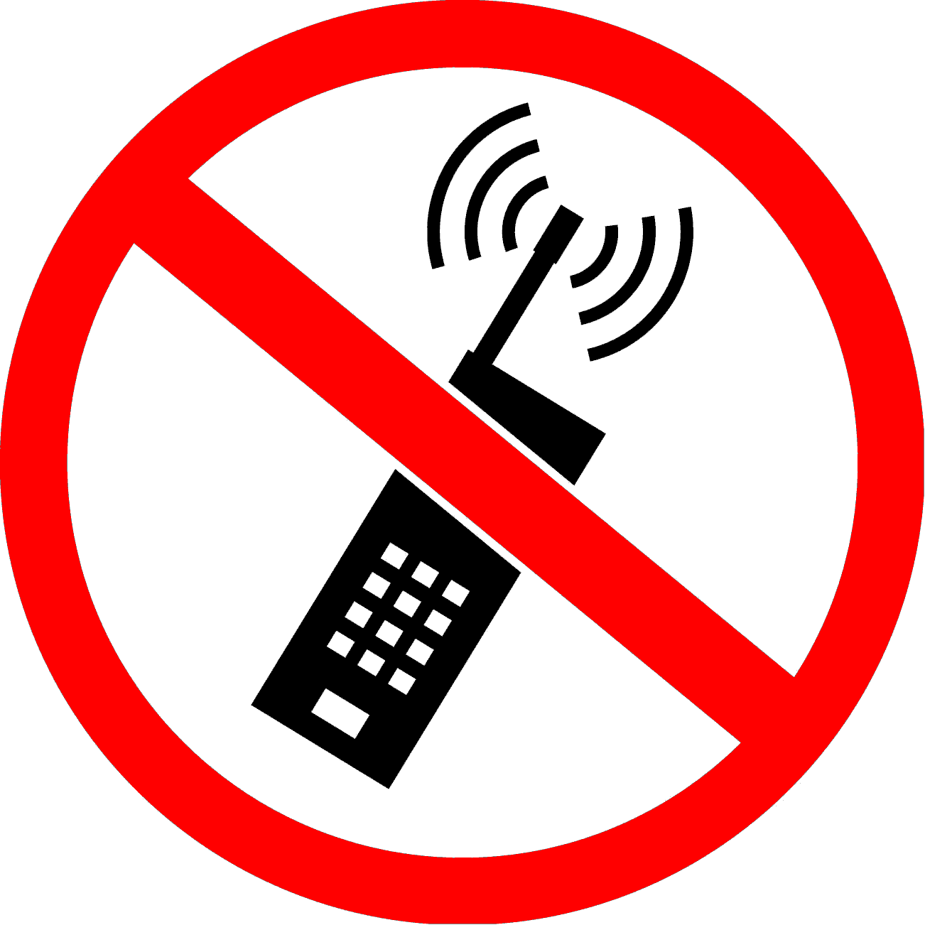 Mobile forbiden